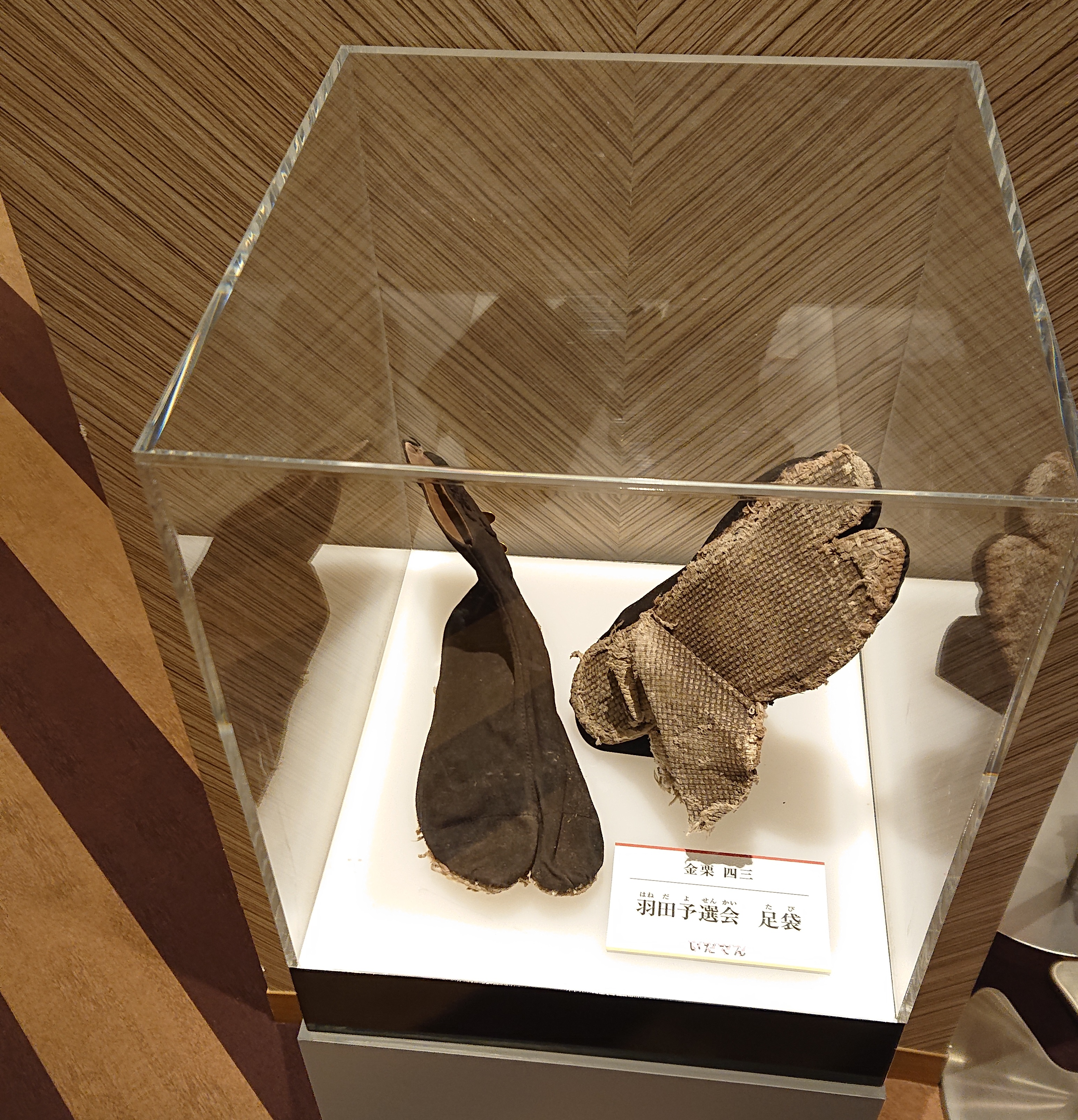 These tabis were used for shooting NHK's taiga drama, Idaten.